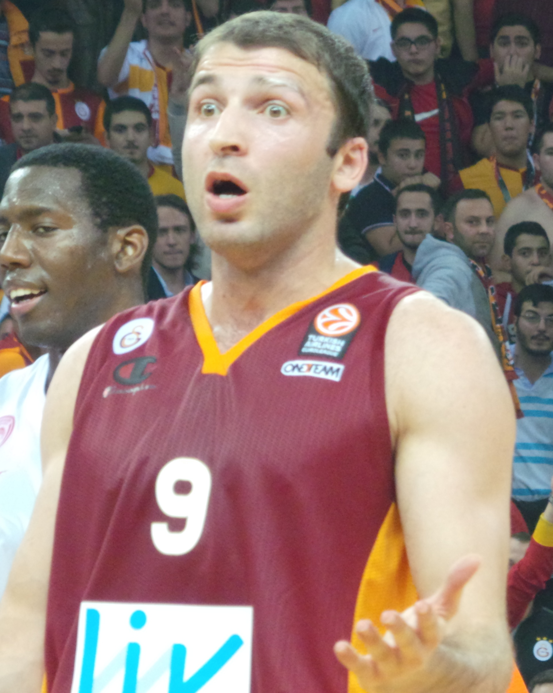 Manuchar Markoishvili